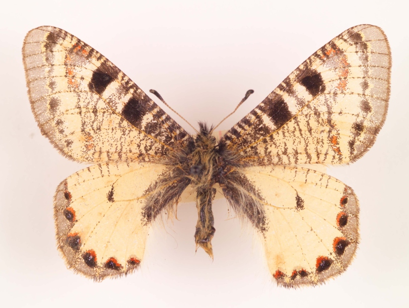 Archon apollinus amasina Staudinger, 1901